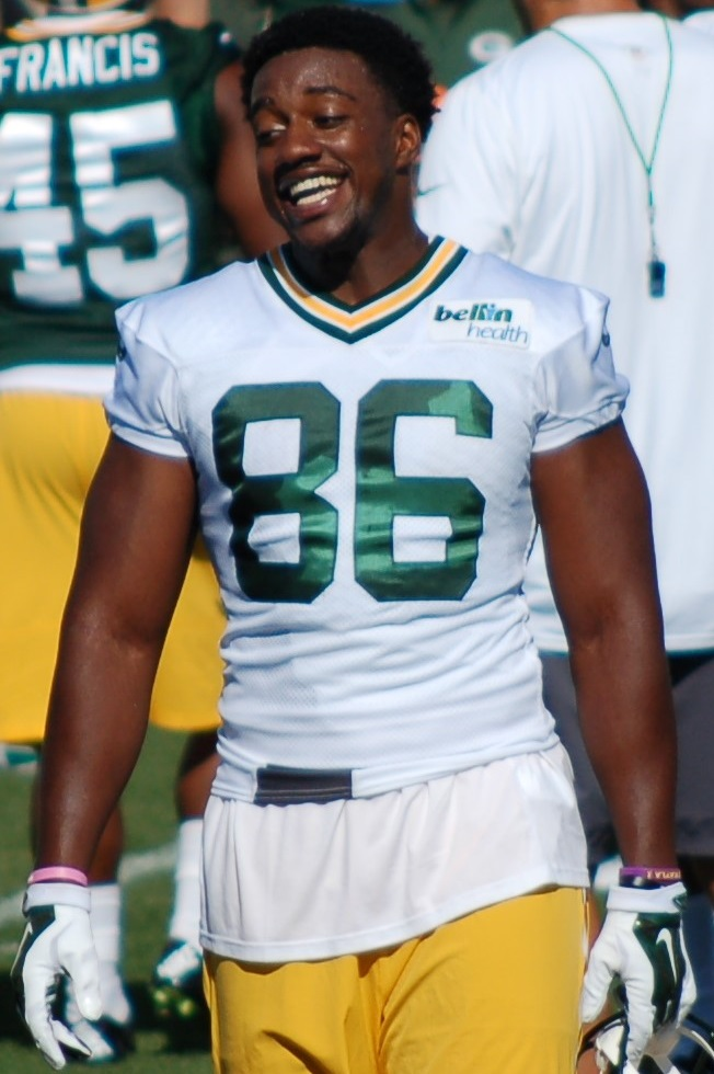 2015 Packers training camp